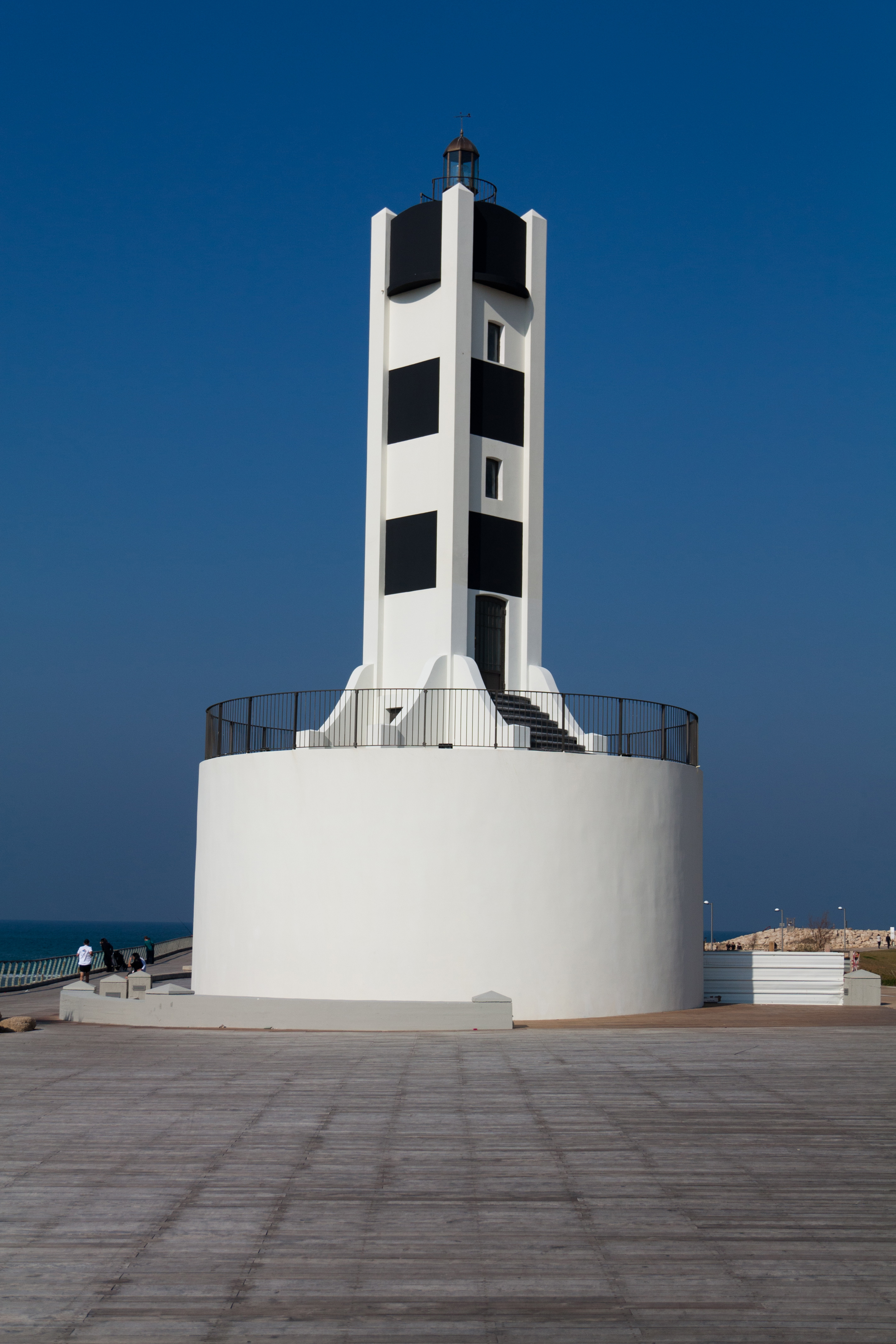 Reading Lighthouse